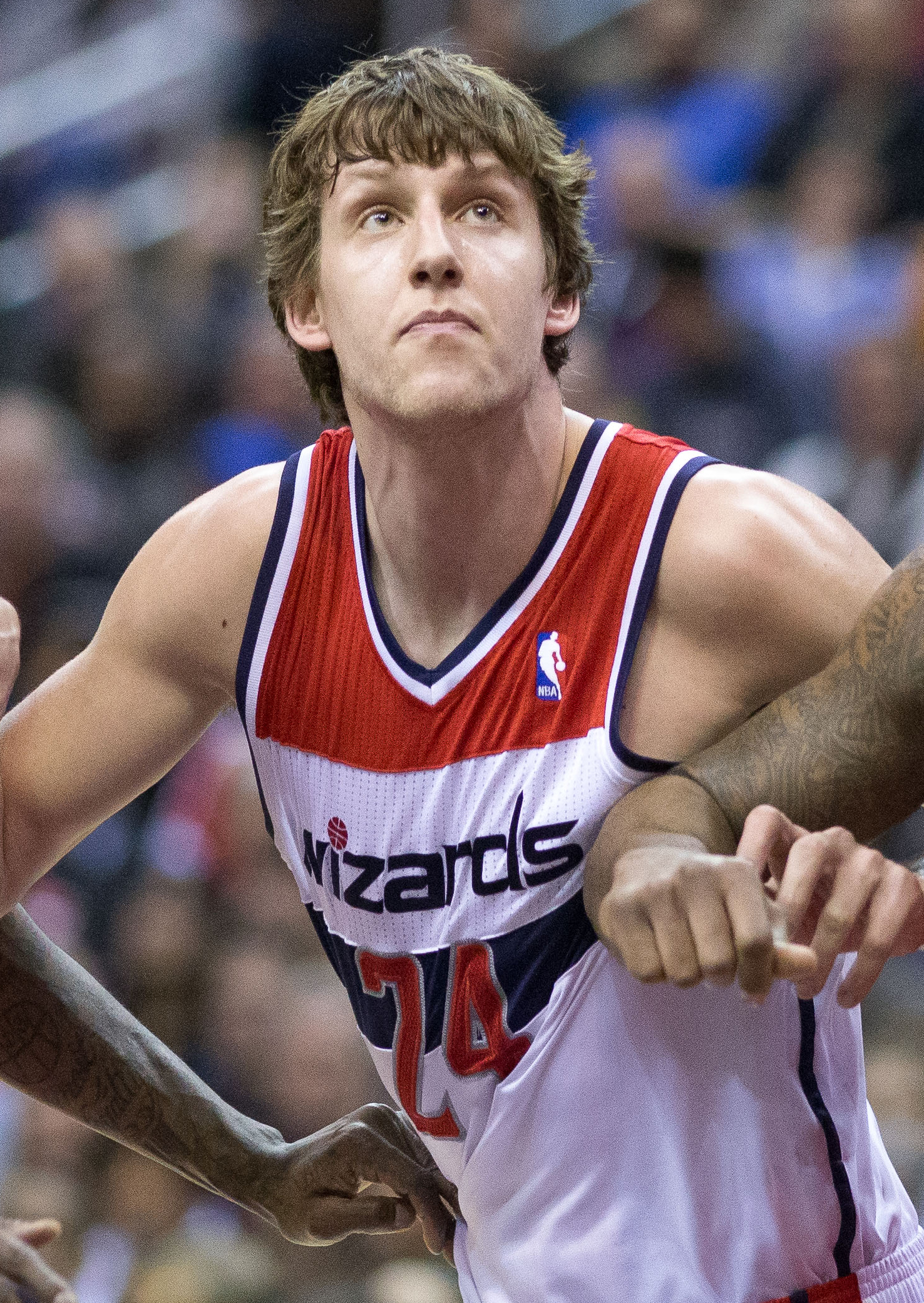 Jan Vesely, Philadelphia 76ers at Washington Wizards March 3, 2013